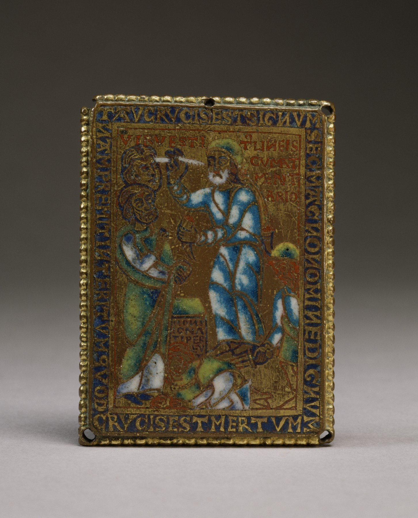 This plaque was once part of an altar cross on which a series of images illustrated Old Testament events (such as Abraham's sacrifice of Isaac) foreshadowing the Crucifixion. It depicts a vision of the prophet Ezekiel, who saw all the inhabitants of Jerusalem, except for those righteous ones whose foreheads had been marked with a sign, punished by death for their sins. According to the Latin text of the Bible used during the Middle Ages, this sign was T-shaped.